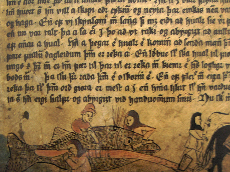 Illumination from AM345fol of Icelandic whalers processing a whale in the 16th century